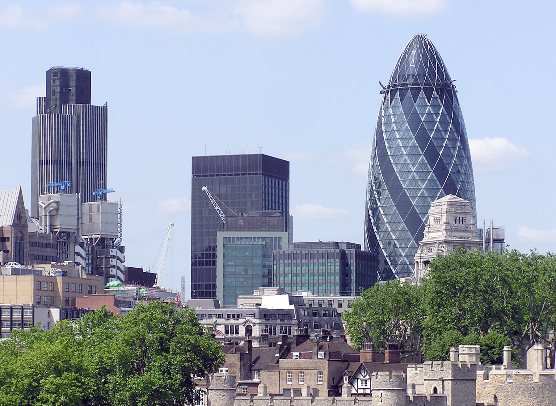 Two of London’s tallest buildings, left is Tower 42 (183 metres, 600 feet, once called the NatWest Tower) and right is the Swiss Re Tower (180 metres, 590 feet). The building on the left with the blue cranes on top is Lloyds Building. The building at the very bottom of the picture, on the right, is a small part of the Tower of London. Photographed by Adrian Pingstone in June 2005 and released to the public domain.